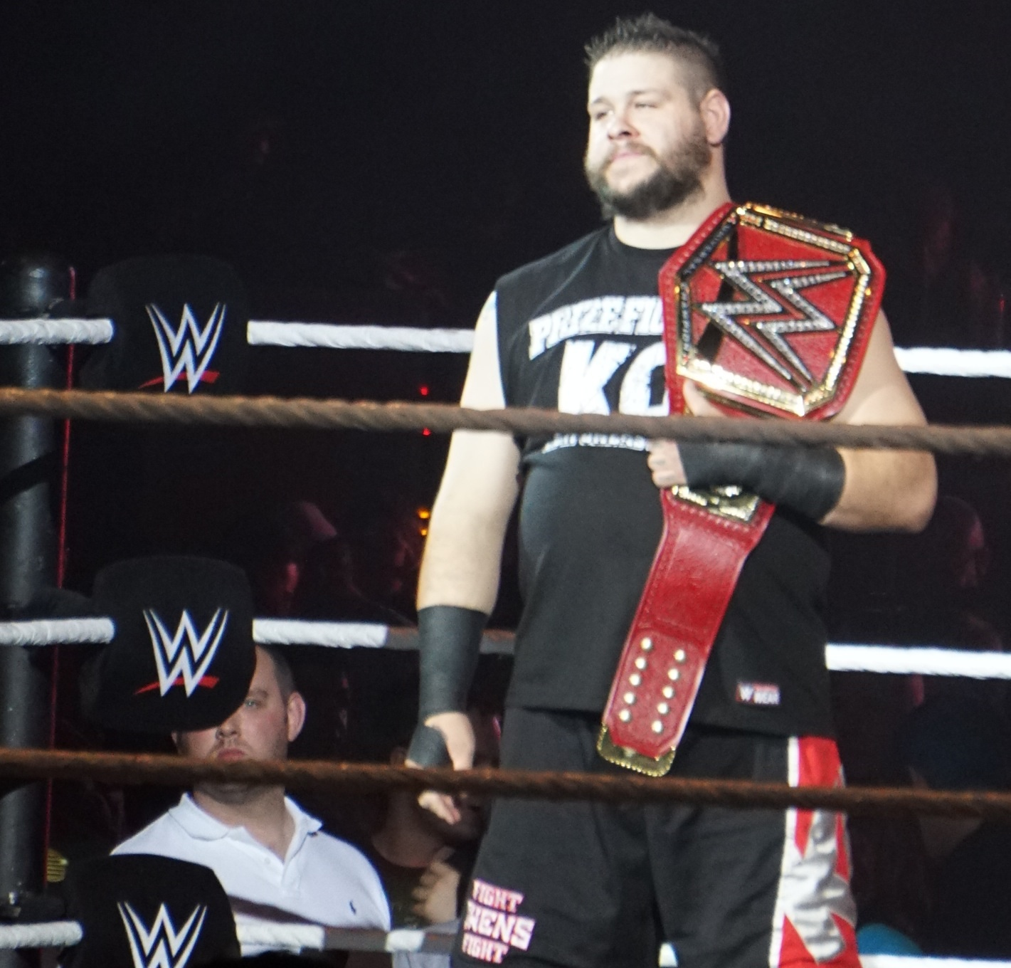 WWE Live returns to London this September Join Roman Reigns, Seth Rollins and more WWE Superstars at the 02 Arena for a one-night-only WWE Live in London on Wednesday, 7 Sept. Kevin Owens (c) def. (pin) Sami Zayn, Seth Rollins Type of match : 3-way Match For : WWE Universal Championship